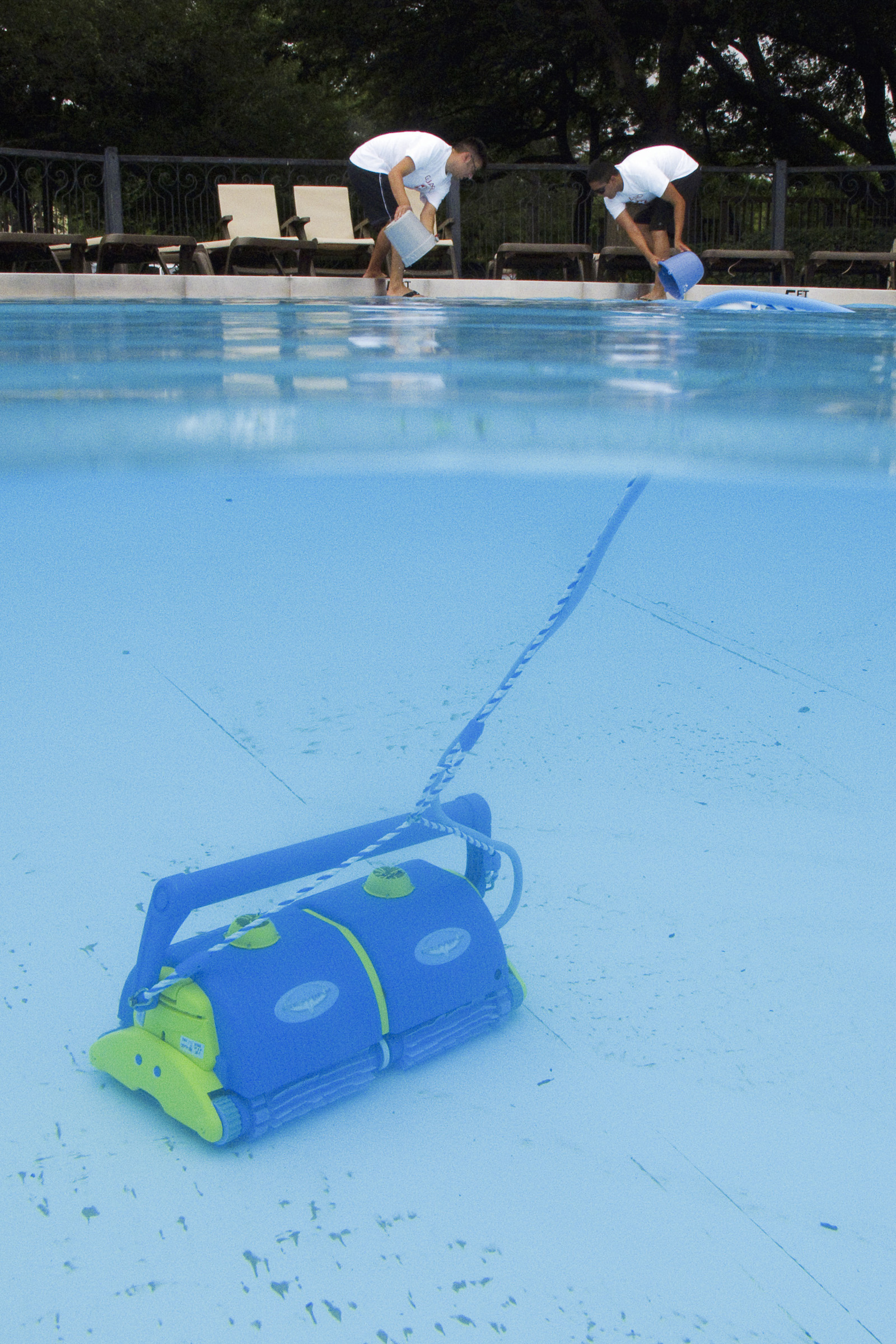 Angel Saavedra and Joshua Caslill, both lifeguards, clean around the pool deck while a skimmer cleans the bottom of the pool during preparations for the 2010 swimming season at Randolph Air Force Base, Texas, May 20, 2010.